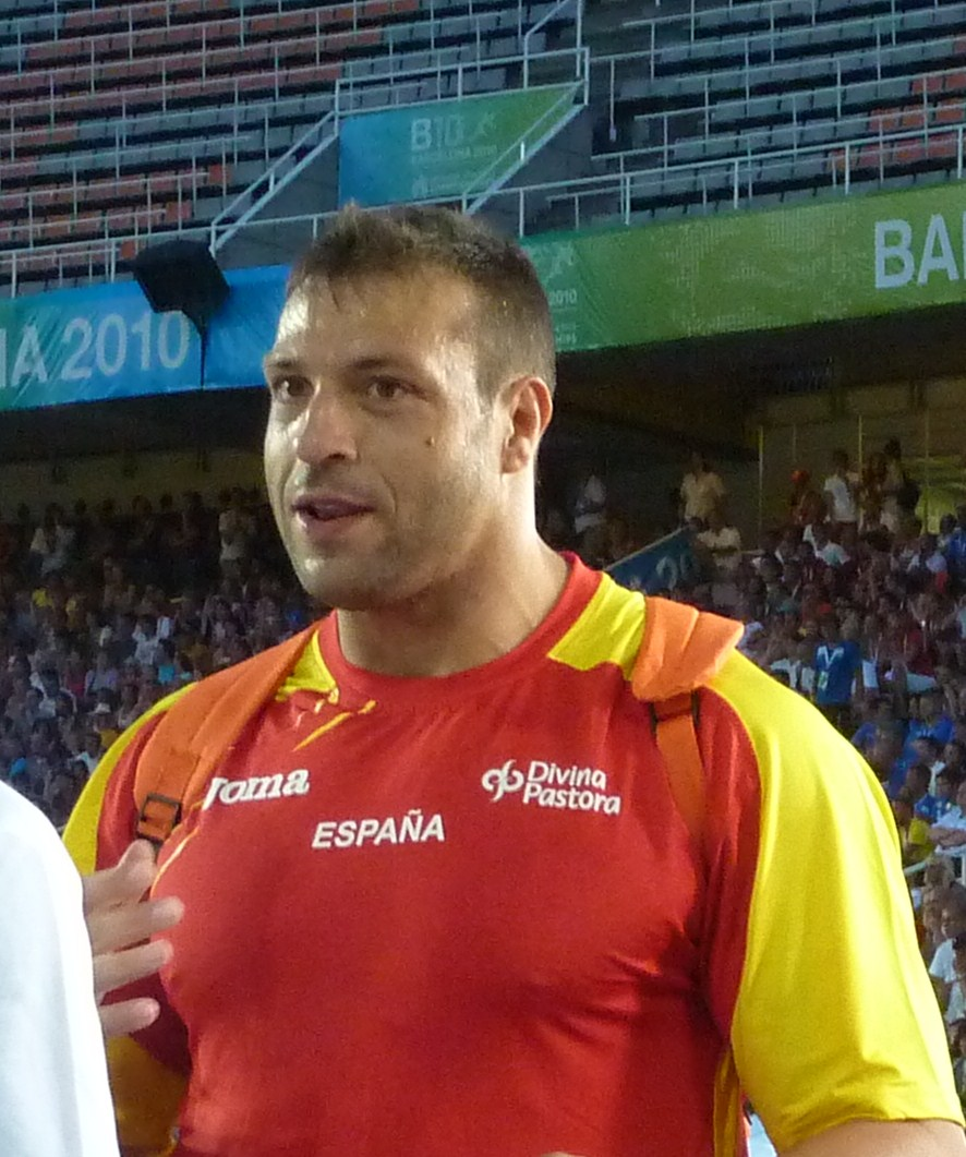 Mario Pestano at the 2010 European Athletics Championship in Barcellona.